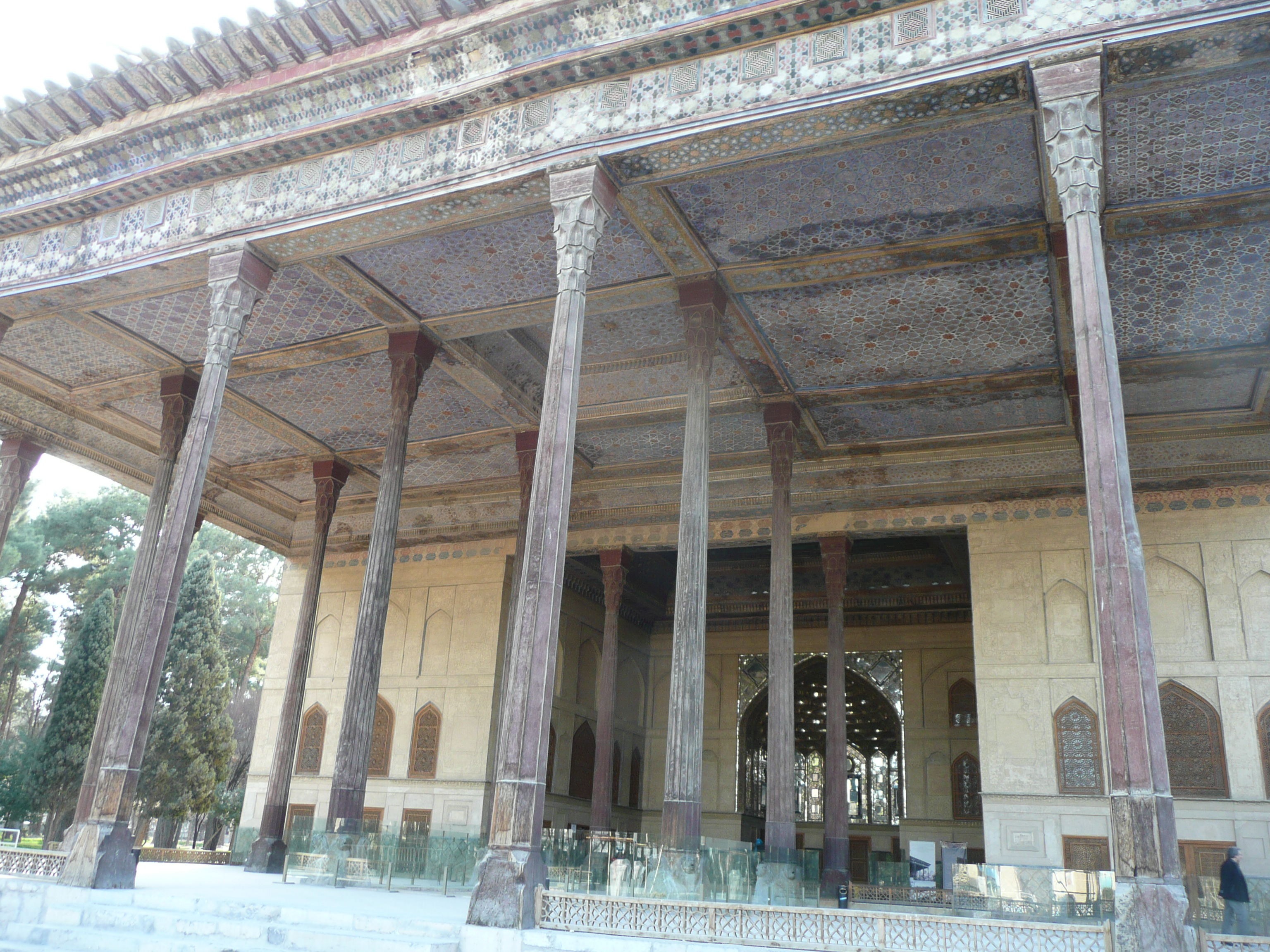 The Persian Chehel Sotoun palace in Isfahan, Iran.